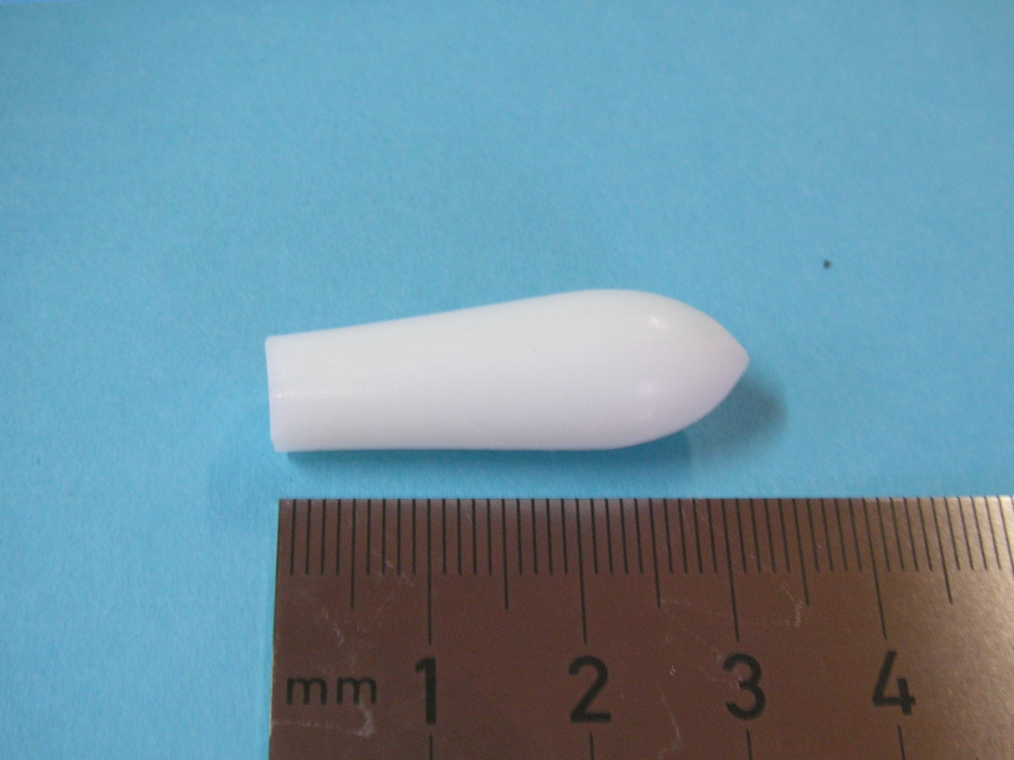 Suppository, size for adults. normal weight: 2 grams.